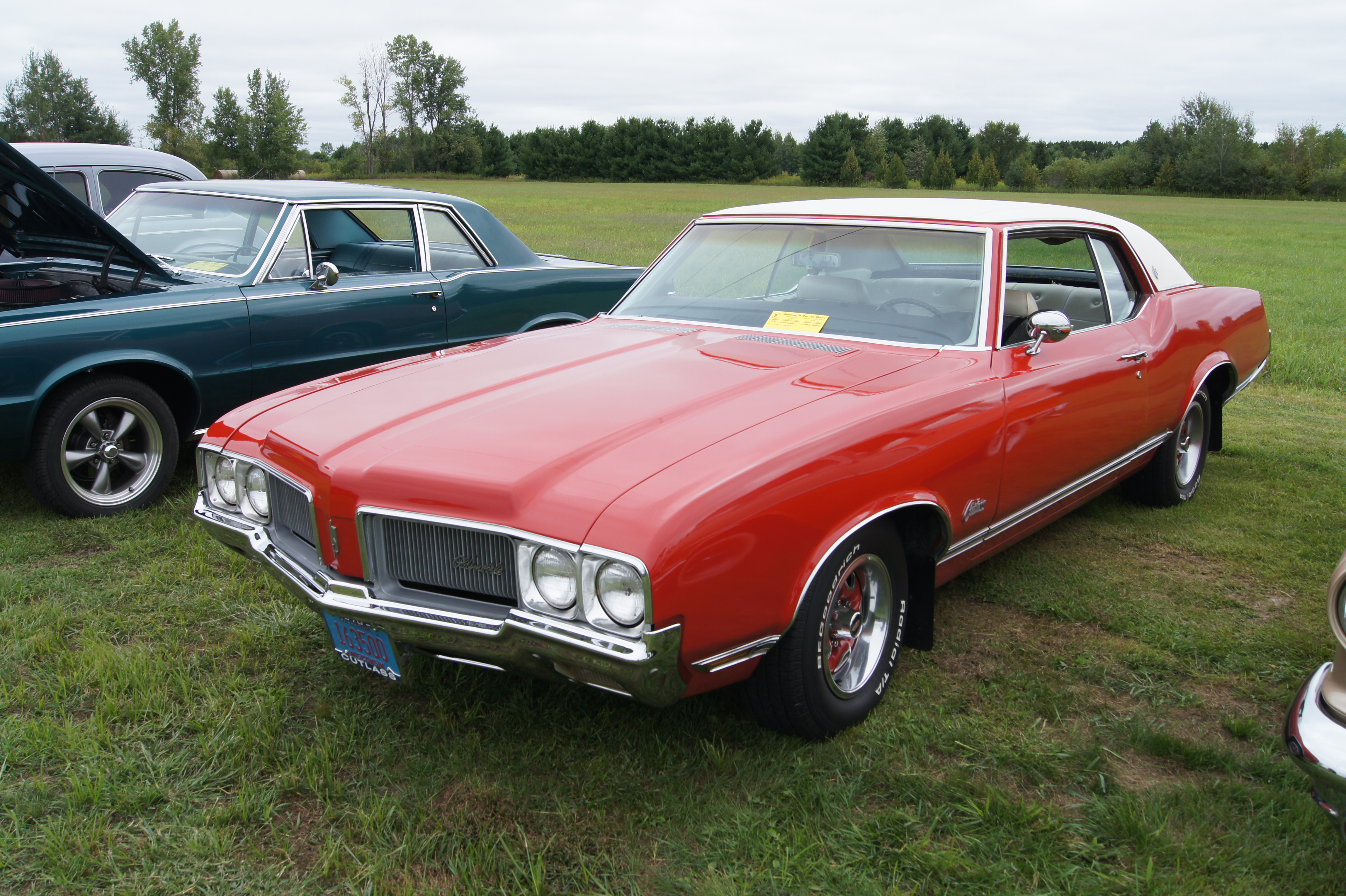 North Star Chapter Studebaker Drivers Club 13th Annual Labor Day Car Show September 2, 2013 Blacksmith Lounge Hugo, MN More Car Pictures